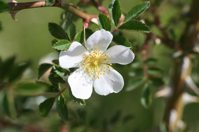 (en) Rosa agrestis, a photography originating of the internet site The accord of the autor, H. Brisse, is here. (fr) Rosa agrestis, une photographie issue du site internet L'accord de l'auteur, H. Brisse, se situe ici.